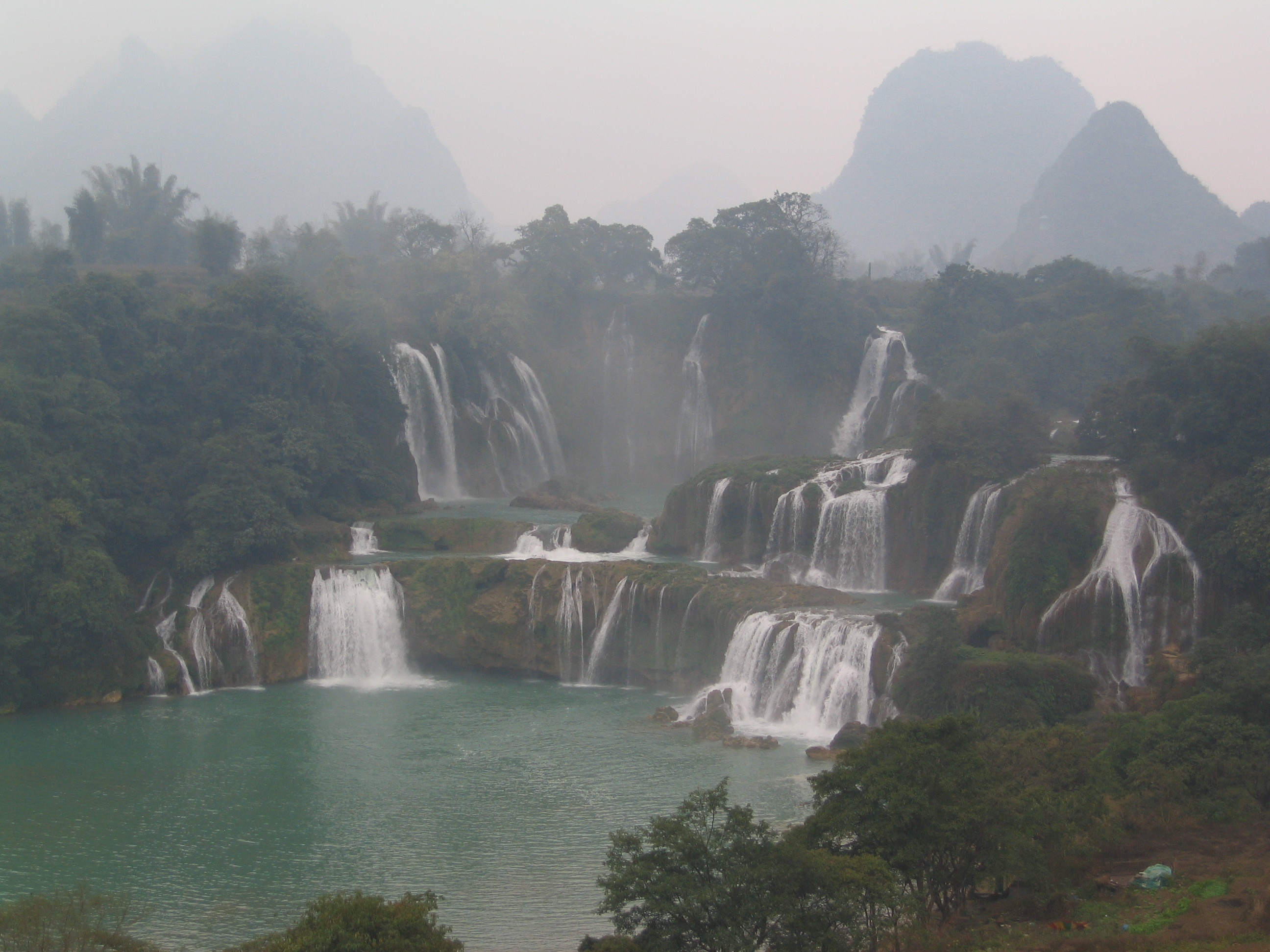 Ban Gioc – Detian Falls in the Sino-Vietnamese border